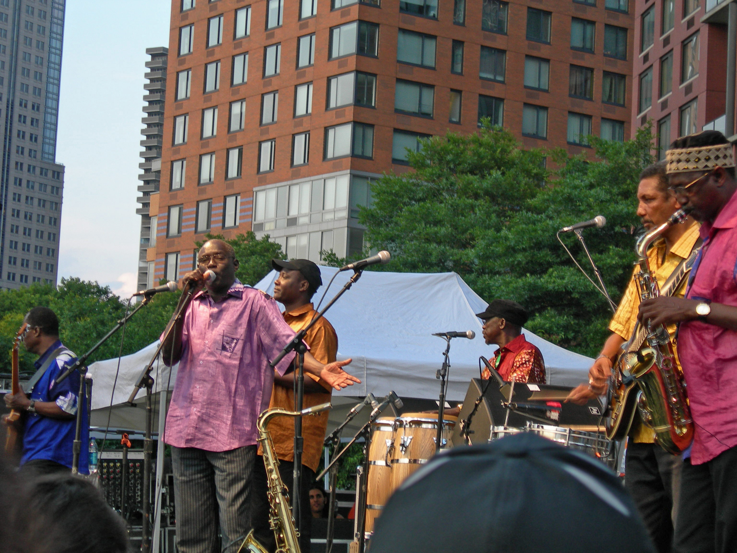 Orchestra Baobab perform at Roosevelt Park, Battery Park City, Manhattan, New York. 2008-06-25.